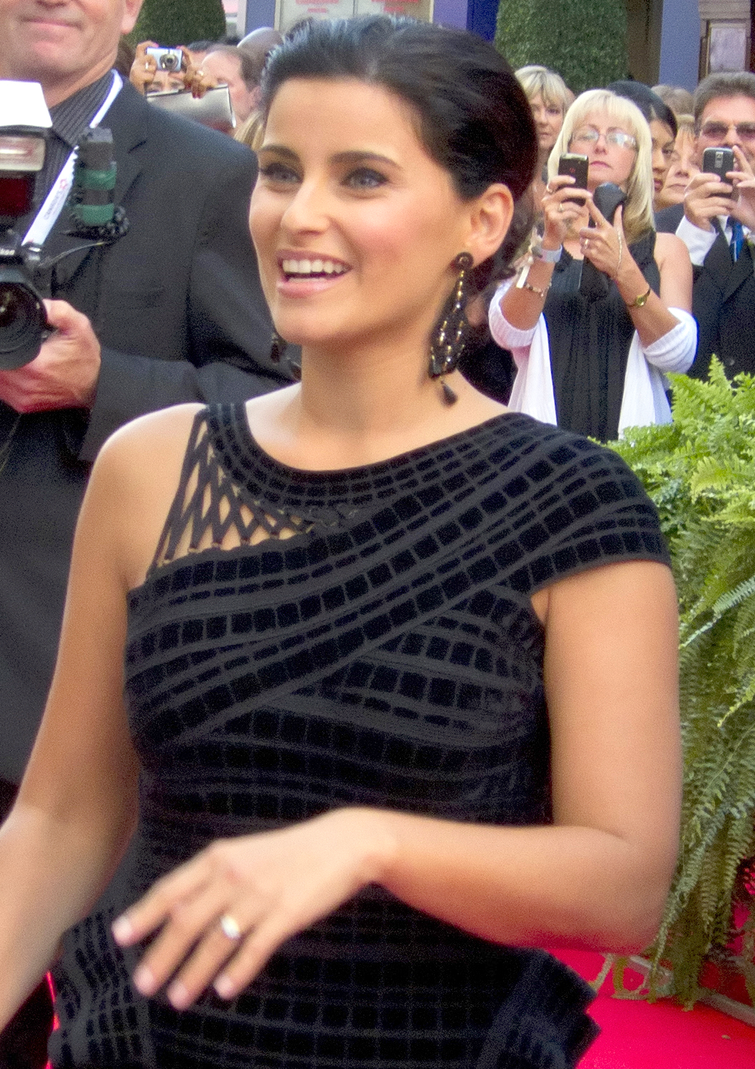 Nelly Furtado at the Canada's Walk of Fame induction ceremony 2010.